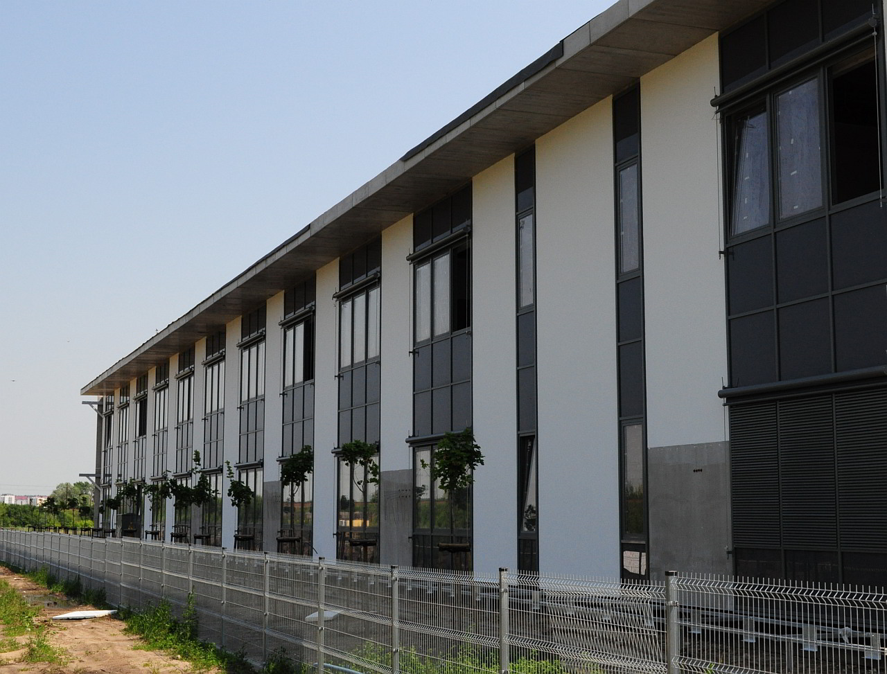 High Technology Incubators Complex (under construction)